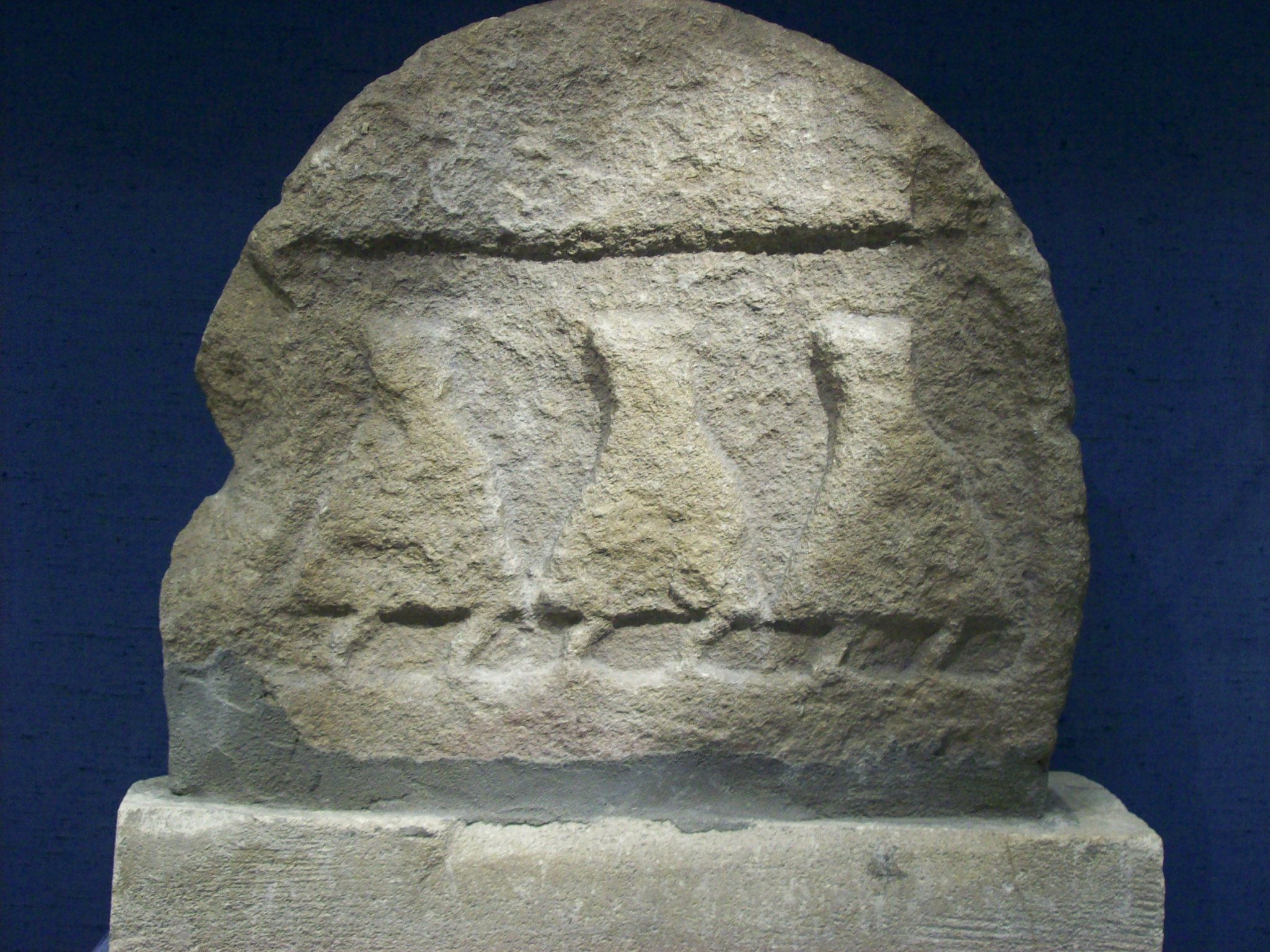 Genii cucullati, Roman relief, Corinium Museum, Cirencester